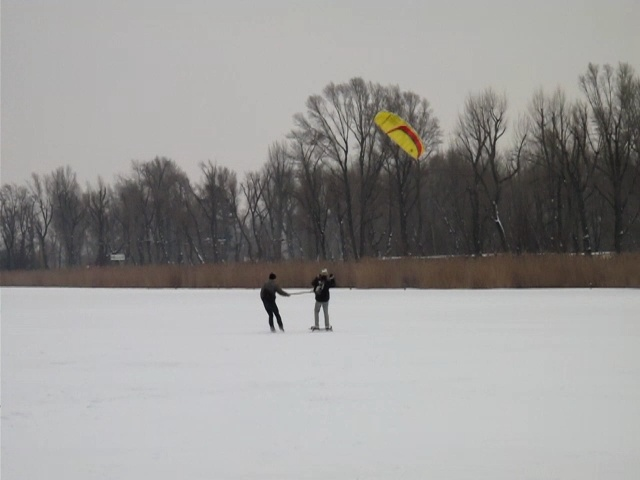 Two para-skaters are skating across the frozen Old Danube in Vienna, Austria. Both paraskaters are pulled by the same sail. One paraskater uses regular ice skates, the other uses a board with skates mounted on the bottom.